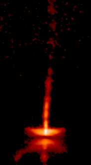 Young star HH30: the jet and disc